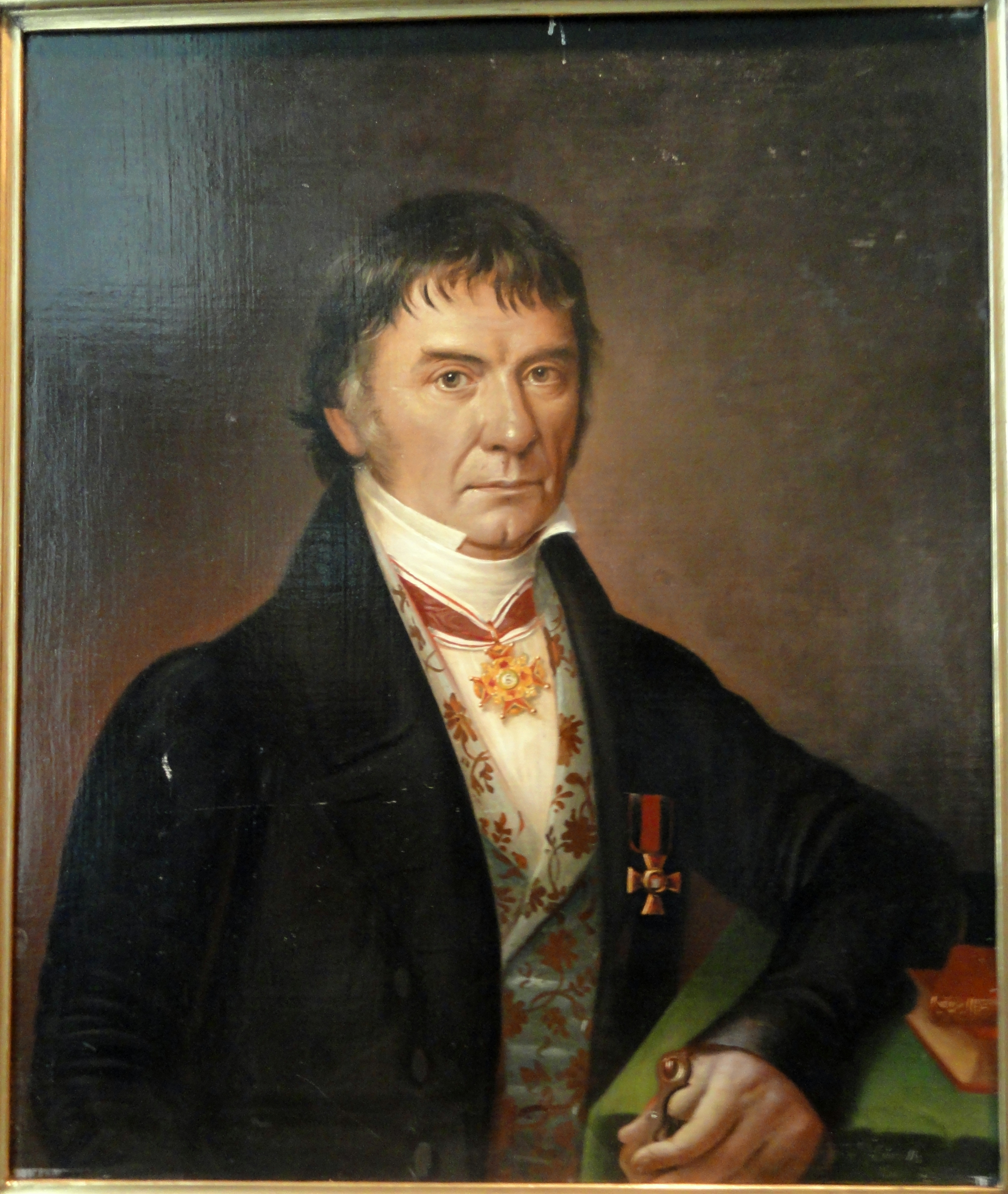 Exhibit in the Arppeanum, Helsinki, Finland. This artwork is in the public domain because the artist died more than 70 years ago.